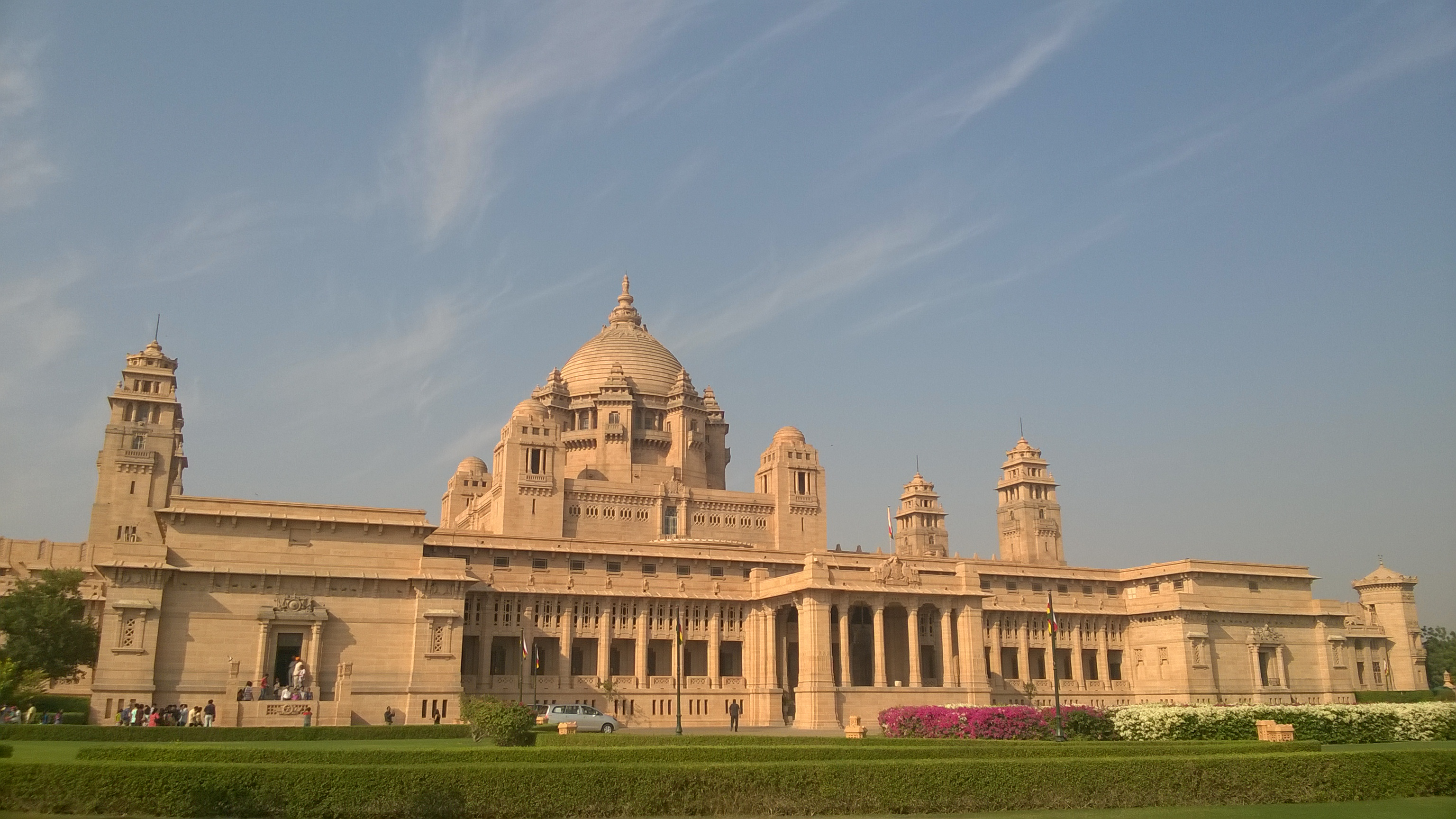 View of the Umaid Bhawan Palace in 2015